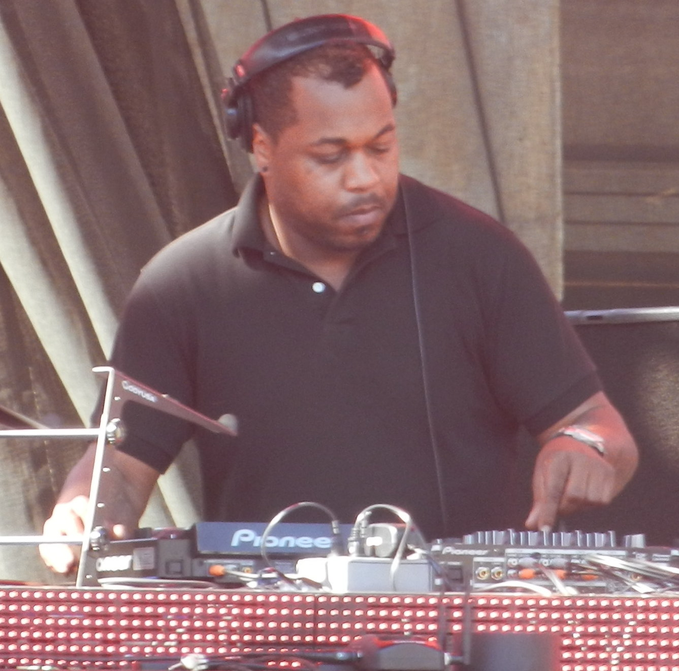 Spring Awakening Fest, Chicago 6/17/12